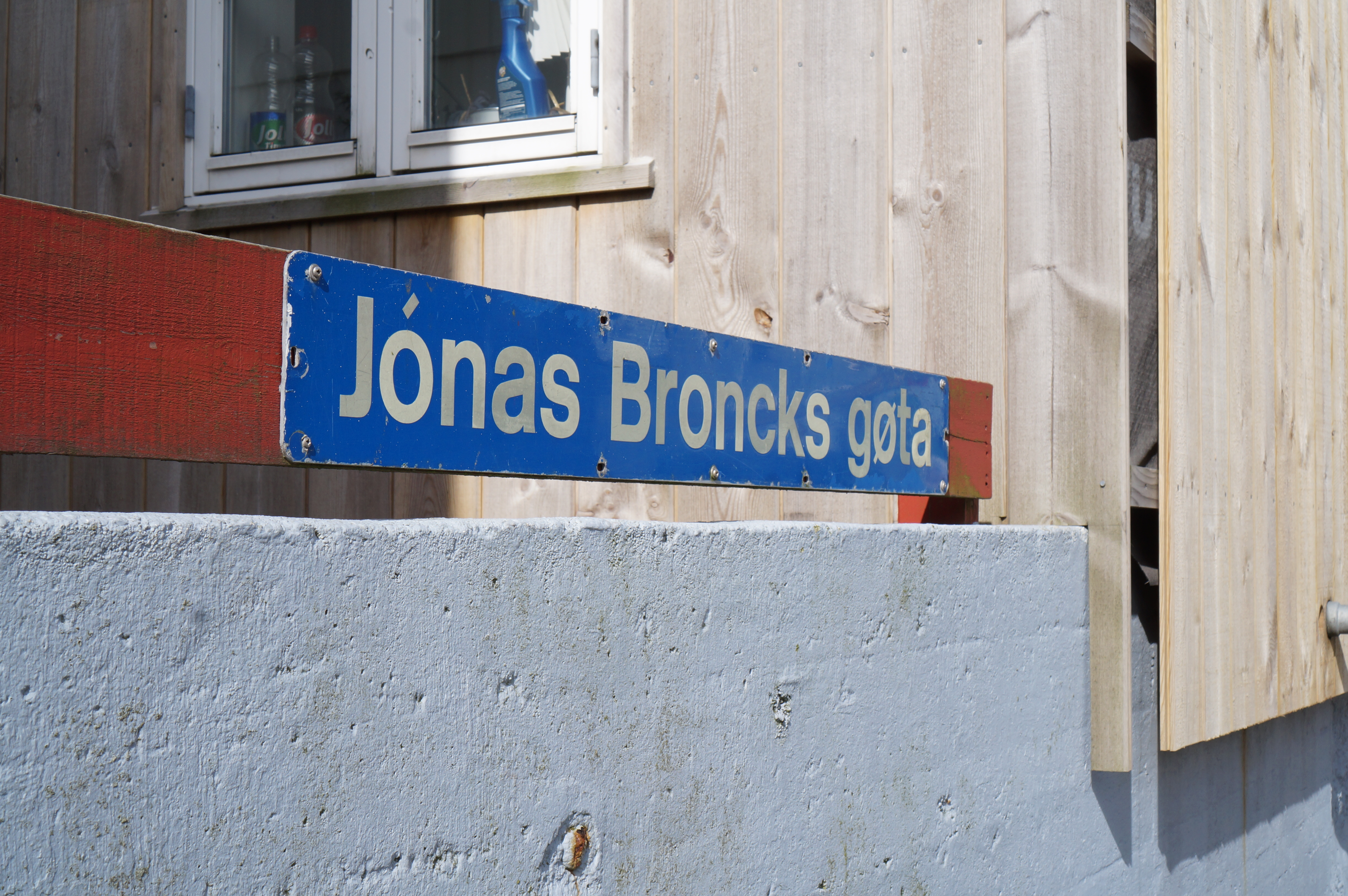 street sign of Jónas Broncks gøta (possibly named after Jonas Bronck) in Tórshavn, the Faroe Islands